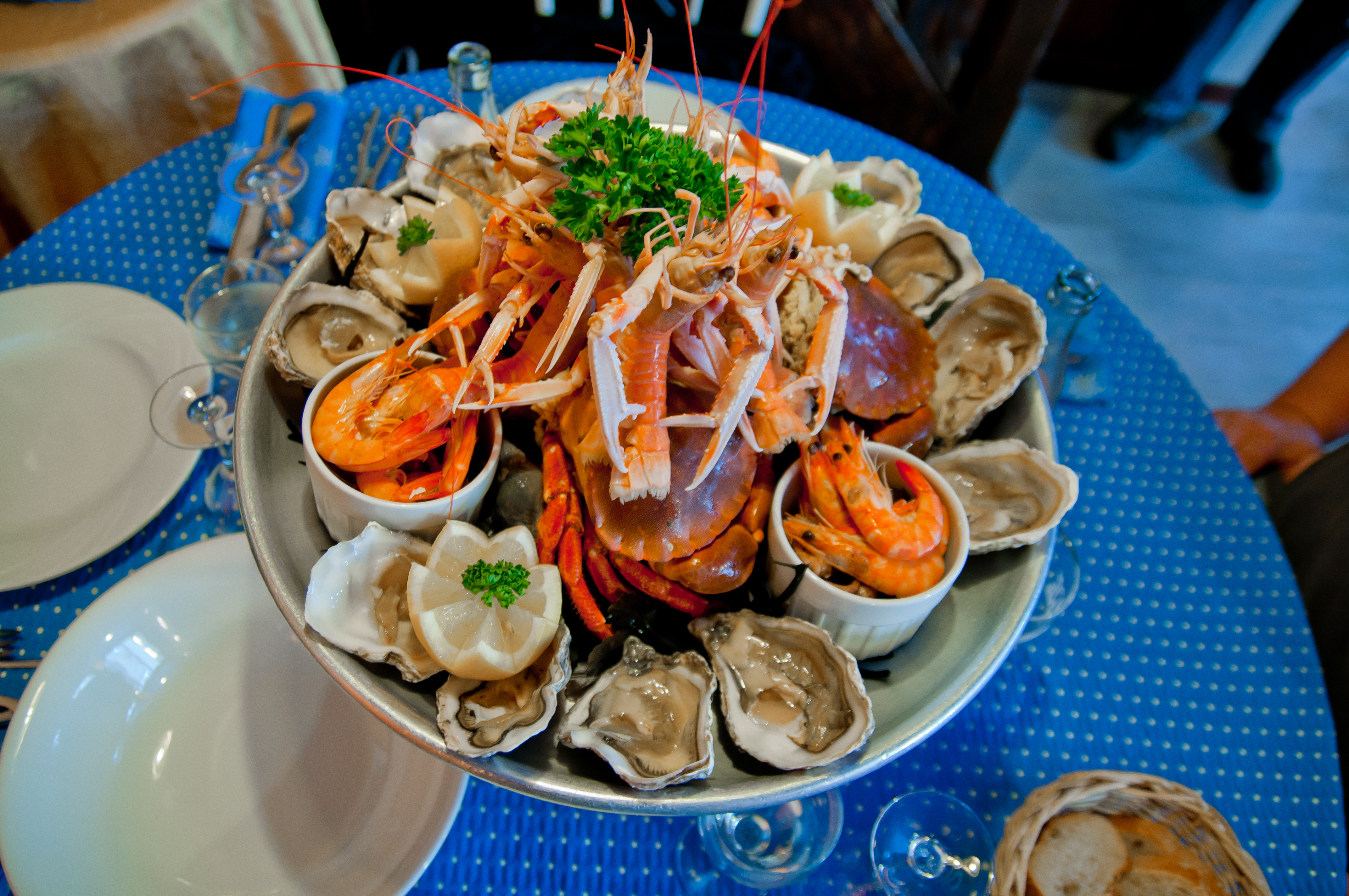 Whoooohooooo, seafood bash for three!! Rene decided to have steak, but Richie, Jurgen and i chose the seafood platter. A bonanza of bulots (big seasnails), bigorneaux (small seasnails), little sweet grey shrimp, normal shrimp, langoustines, half a crab and to top it off a half dozen wicked oysters!!